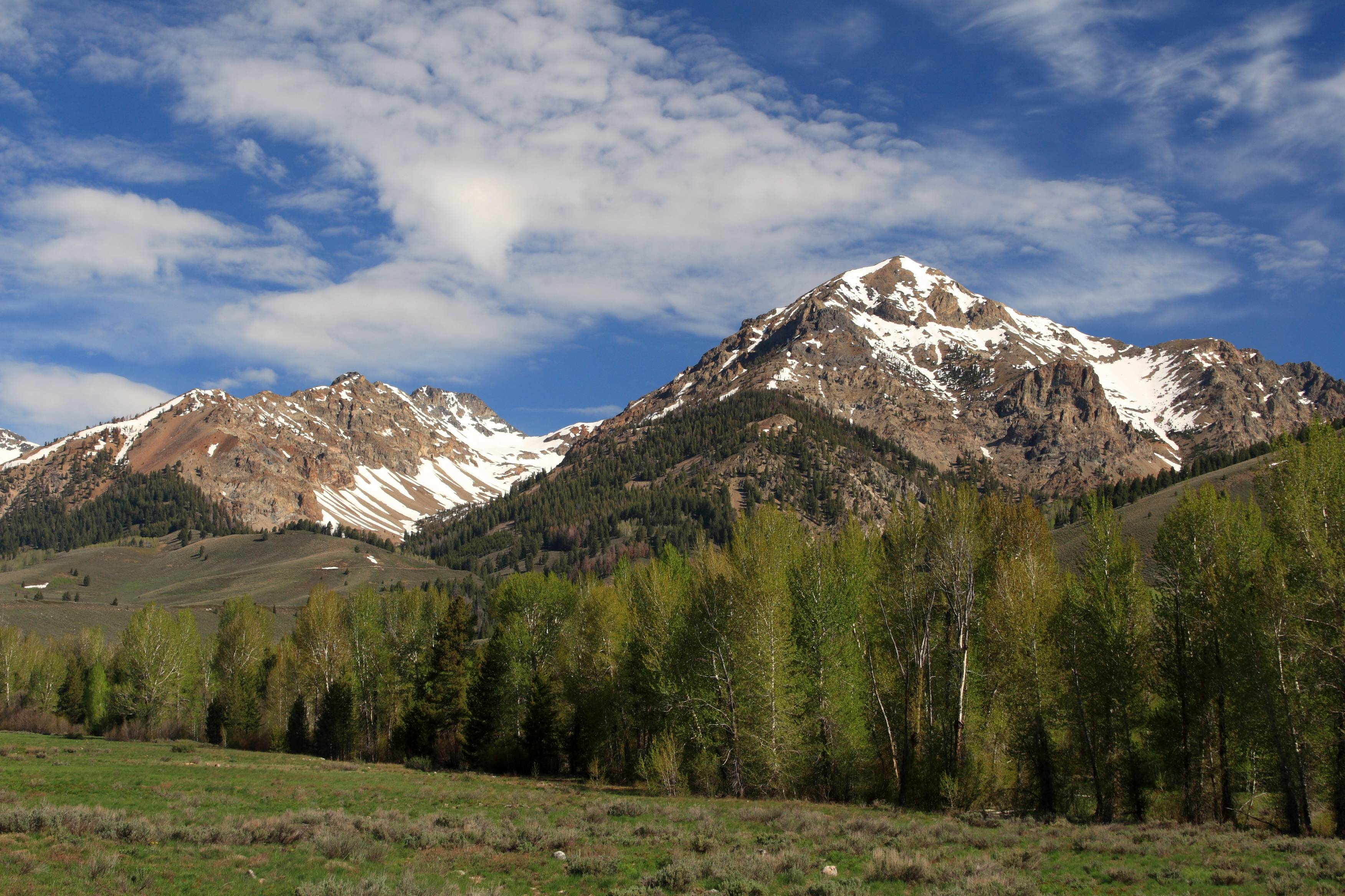 The Boulder Mountains in Sawtooth National Recreation Area, Idaho. I had never been to the Sawtooth Mountains before. I flew over them many times and they looked interesting. I drove through the area in May 2009 - and my reaction was WOW! This is an absolute beautiful area. What surprised me was that the temps were in the 70s, it was a gorgeous day that Alaskans only dream about - and the place was empty and most businesses hadn't opened for the season yet - incredible! I'll definitely go back there. This area is located in central Idaho, slightly NW from Ketchum. Enjoy.